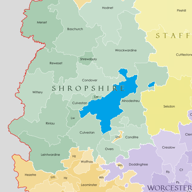 Map of counties and hundreds, as they were in 1086, showing the hundred of Patton in blue.